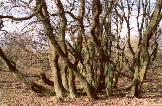 Oak coppice